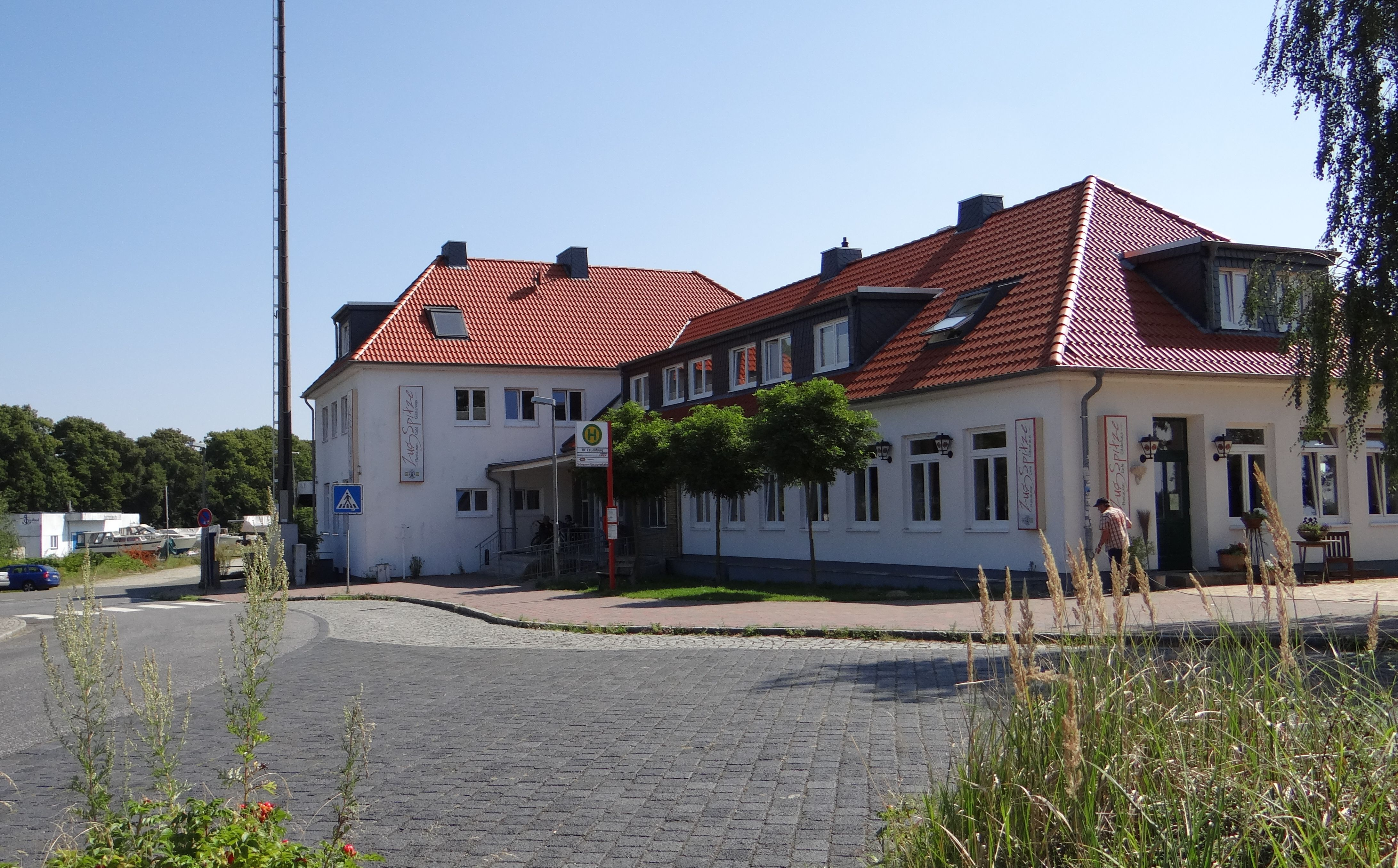 Lauenburg Railway Station.